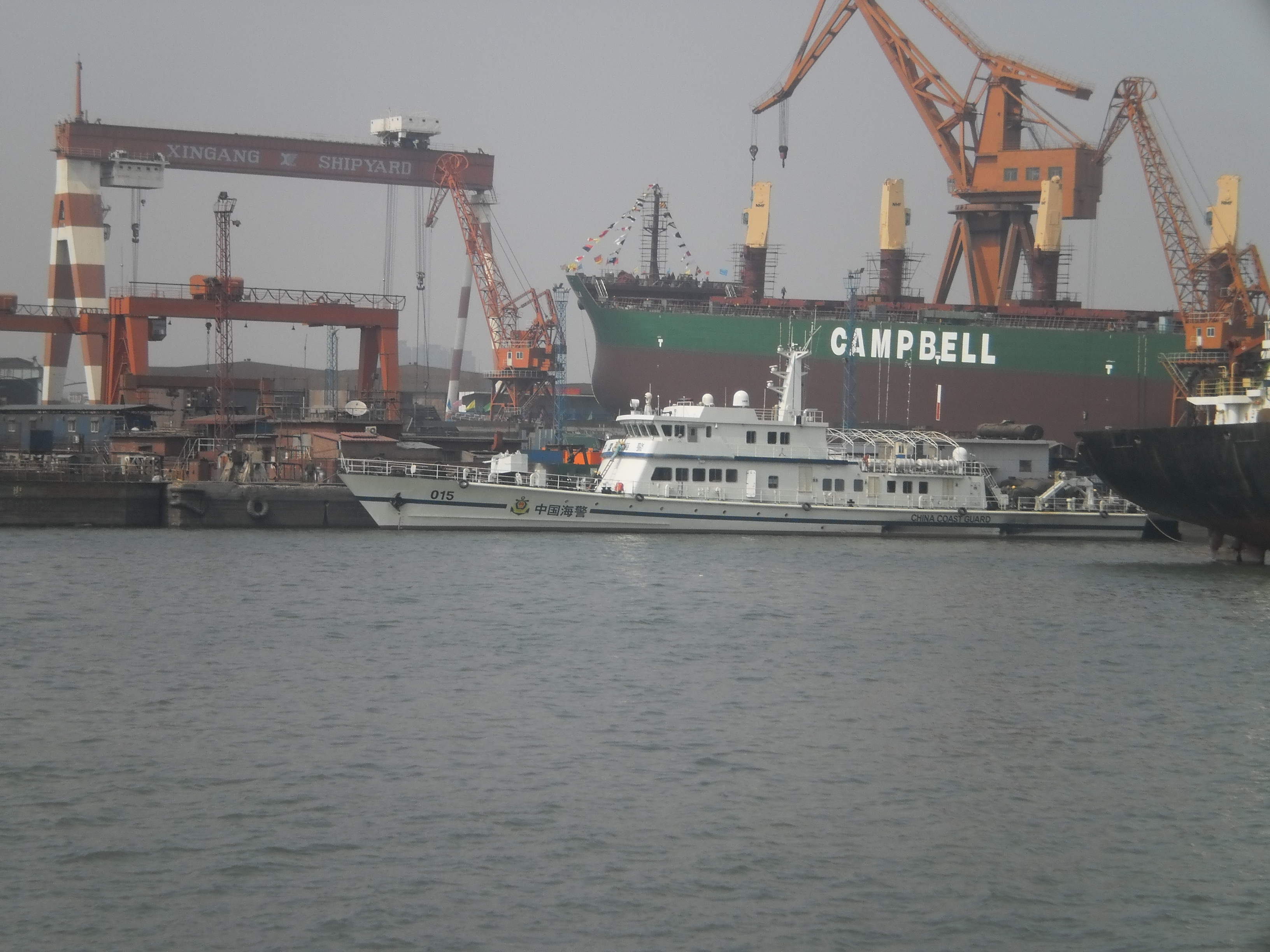 Type 618B cutter "Zhongguo Haijing 015" of the China Coast Guard berthed at the Xingang Shipyard of Tianjin Port.